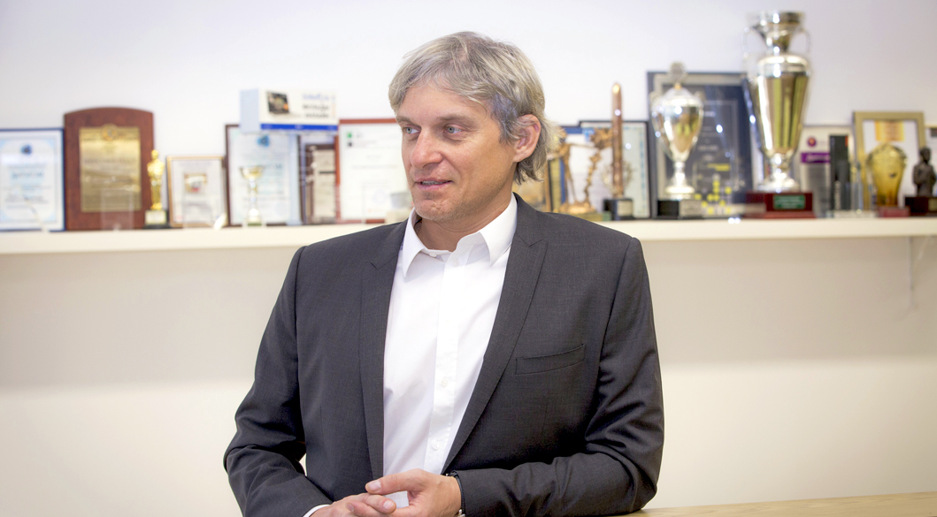 Oleg Tinkov, Russian businessman